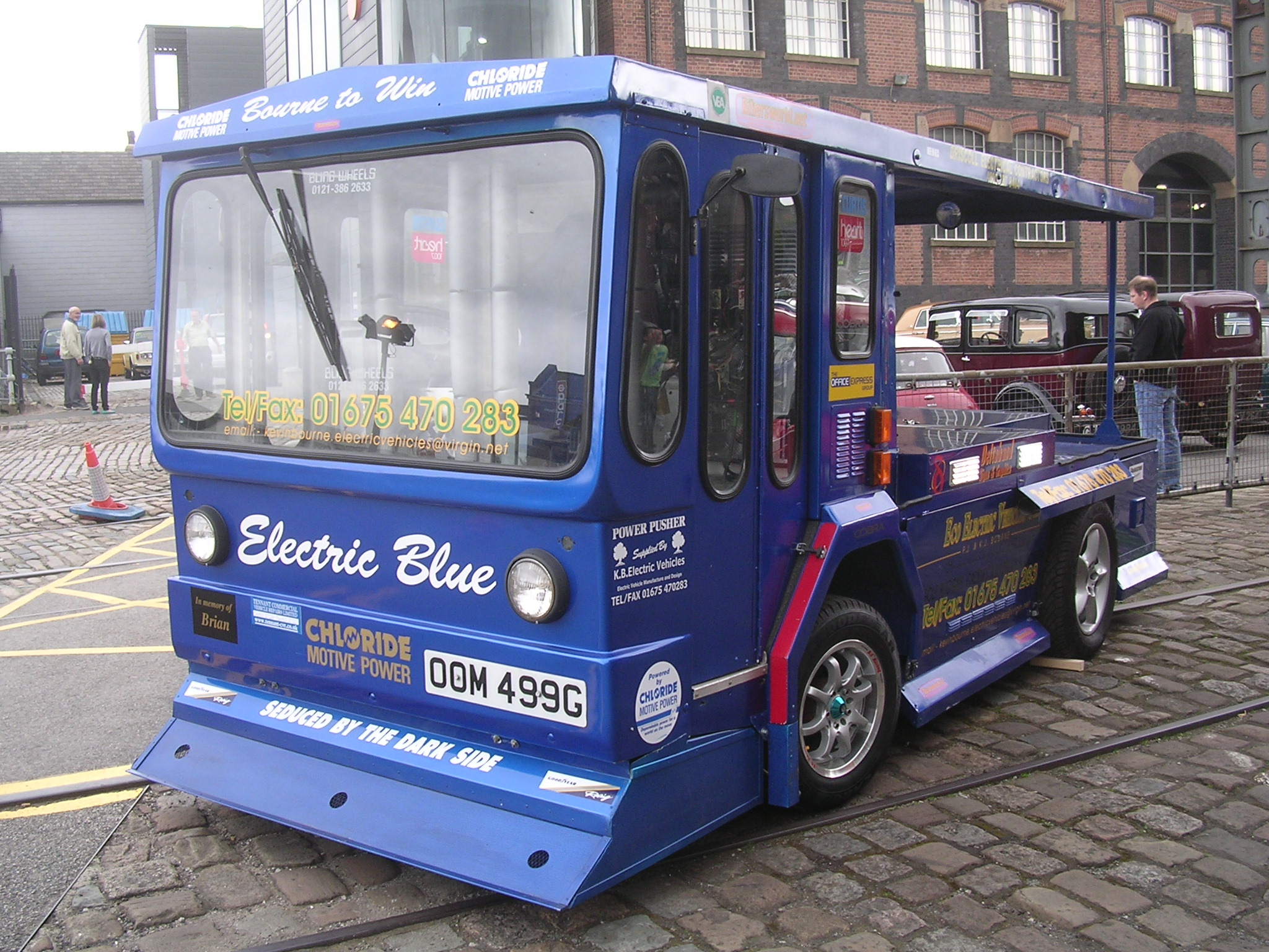 Fastest milk float in the world.